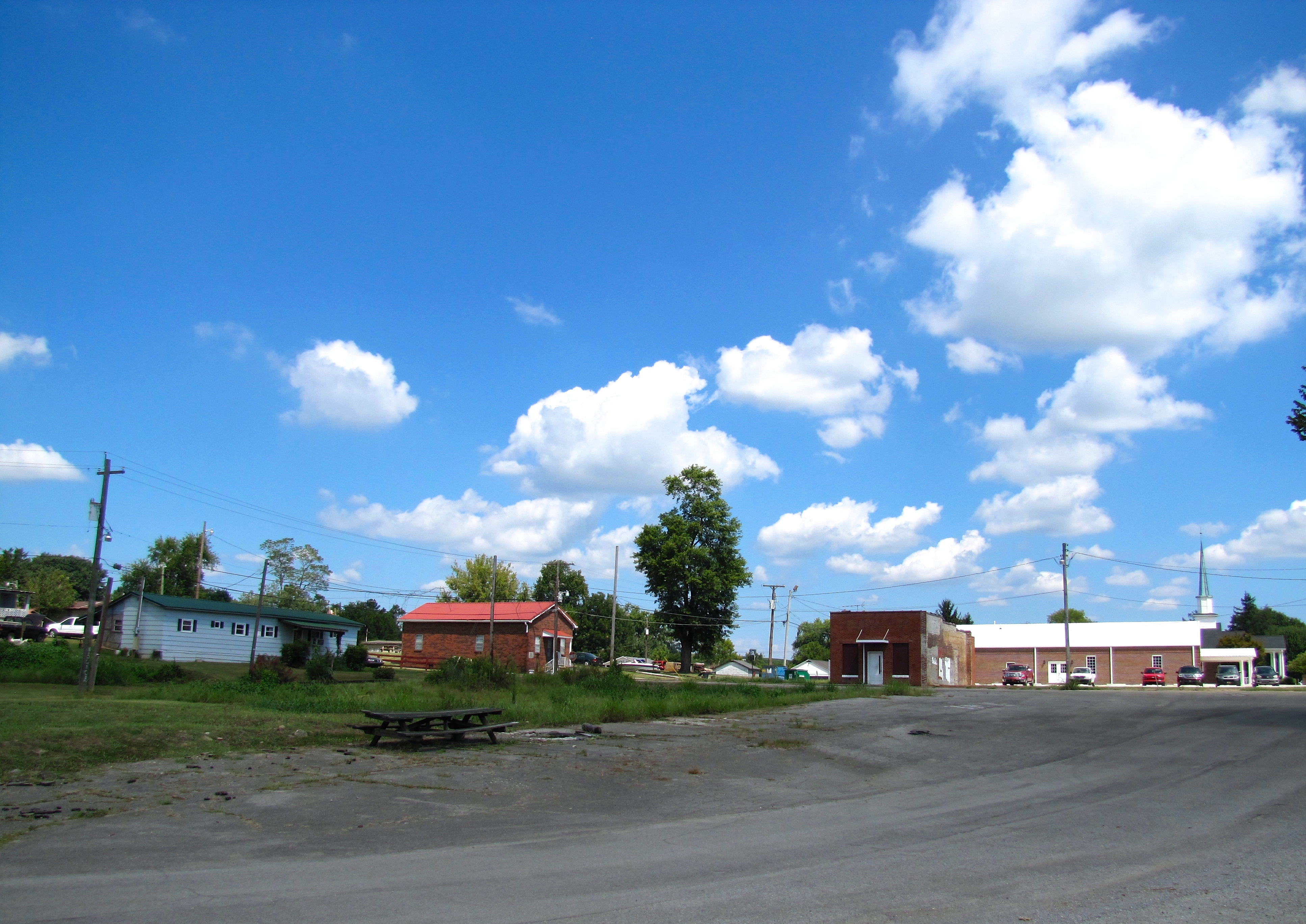 Buildings in Philadelphia, Tennessee, United States, viewed from the intersection of Church Street and Mill Street.